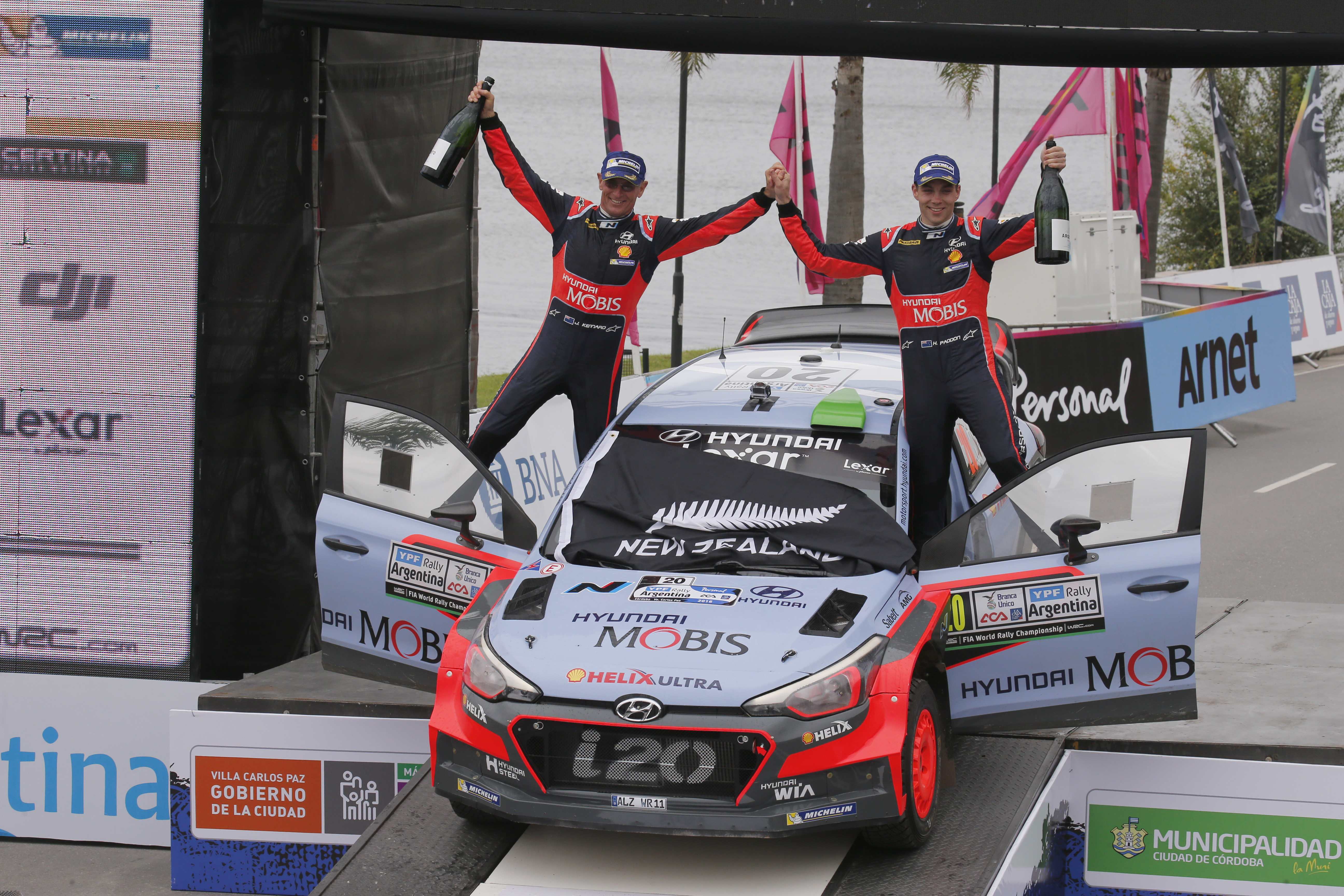 2016 FIA World Rally Championship / Round 04 / Rally Argentina // April 21-24, 2016 // Hayden Paddon (right) and co-driver John Kennard celebrate their win in the 2016 Rally Argentina.